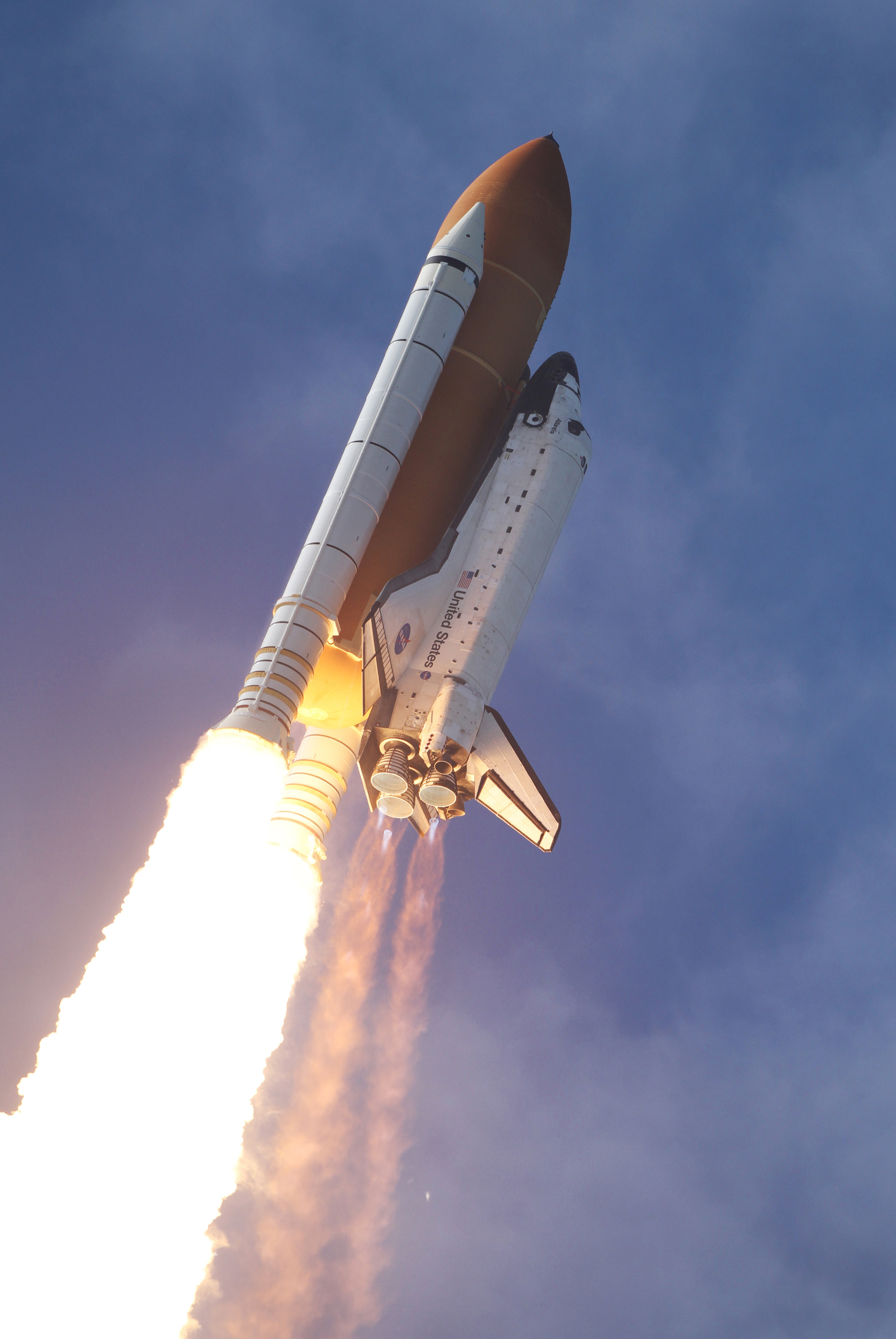 CAPE CANAVERAL, Fla. - With nearly 7 million pounds of thrust generated by twin solid rocket boosters and three main engines, space shuttle Atlantis races to orbit over Launch Pad 39A at NASA's Kennedy Space Center in Florida. Liftoff on its STS-129 mission came at 2:28 p.m. EST Nov. 16. Aboard are crew members Commander Charles O. Hobaugh; Pilot Barry E. Wilmore; and Mission Specialists Leland Melvin, Randy Bresnik, Mike Foreman and Robert L. Satcher Jr. On STS-129, the crew will deliver two Express Logistics Carriers to the International Space Station, the largest of the shuttle's cargo carriers, containing 15 spare pieces of equipment including two gyroscopes, two nitrogen tank assemblies, two pump modules, an ammonia tank assembly and a spare latching end effector for the station's robotic arm. Atlantis will return to Earth a station crew member, Nicole Stott, who has spent more than two months aboard the orbiting laboratory. STS-129 is slated to be the final space shuttle Expedition crew rotation flight. For information on the STS-129 mission and crew, visit